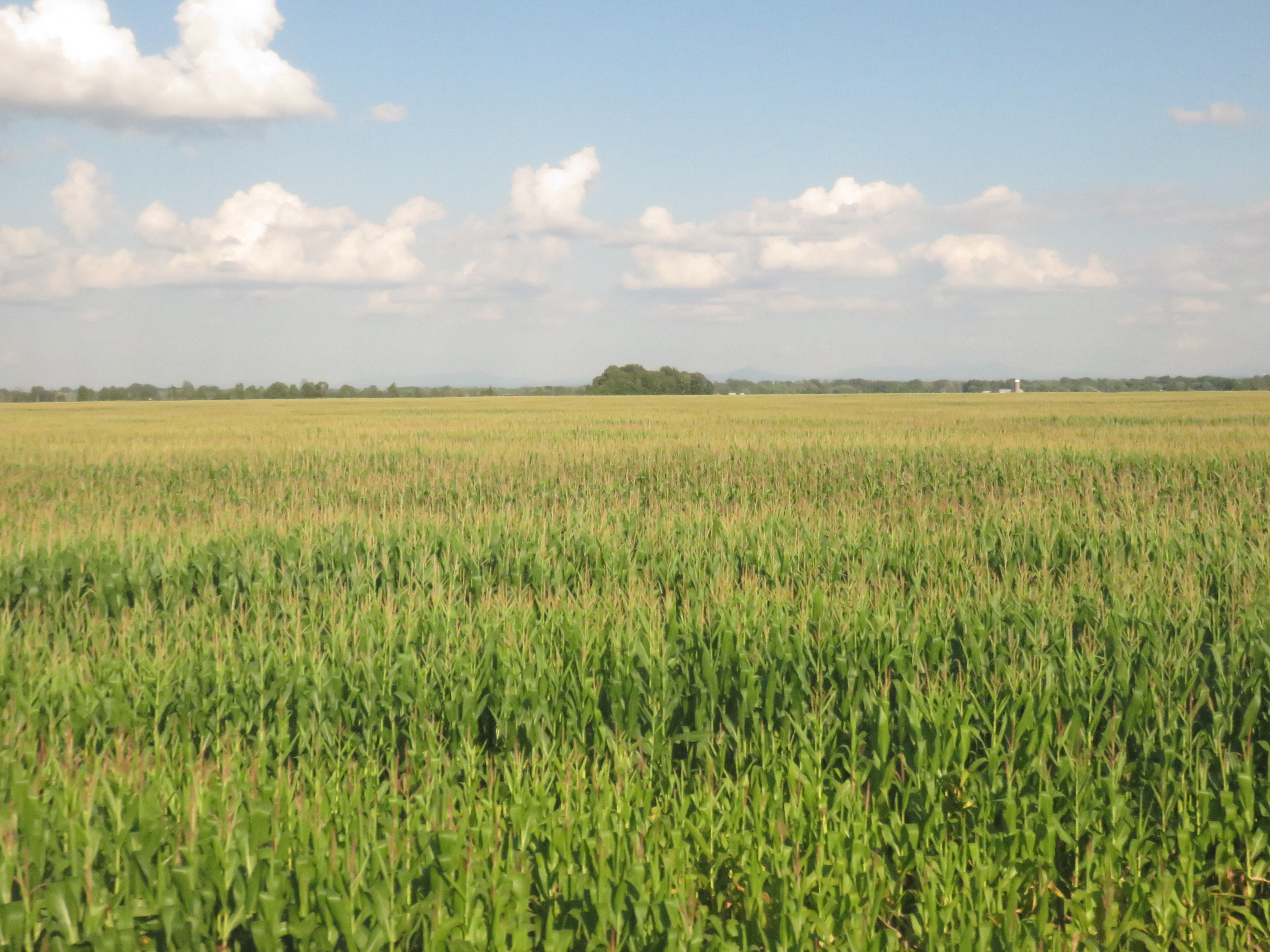 Corn field near Saint-Blaise-sur-Richelieu, Quebec from the Adirondack Amtrak train in 2017